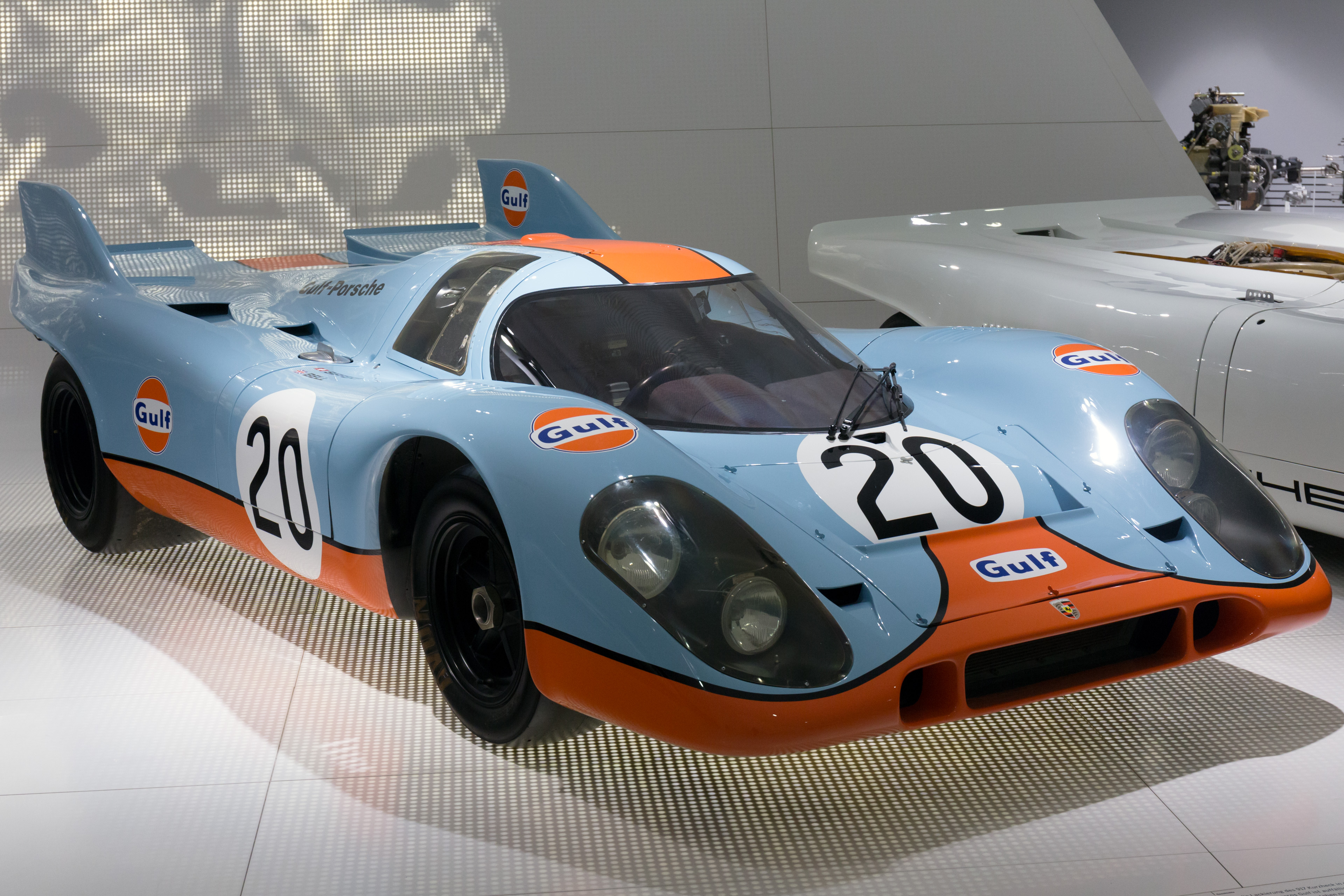 1970 Porsche 917 KH Coupe